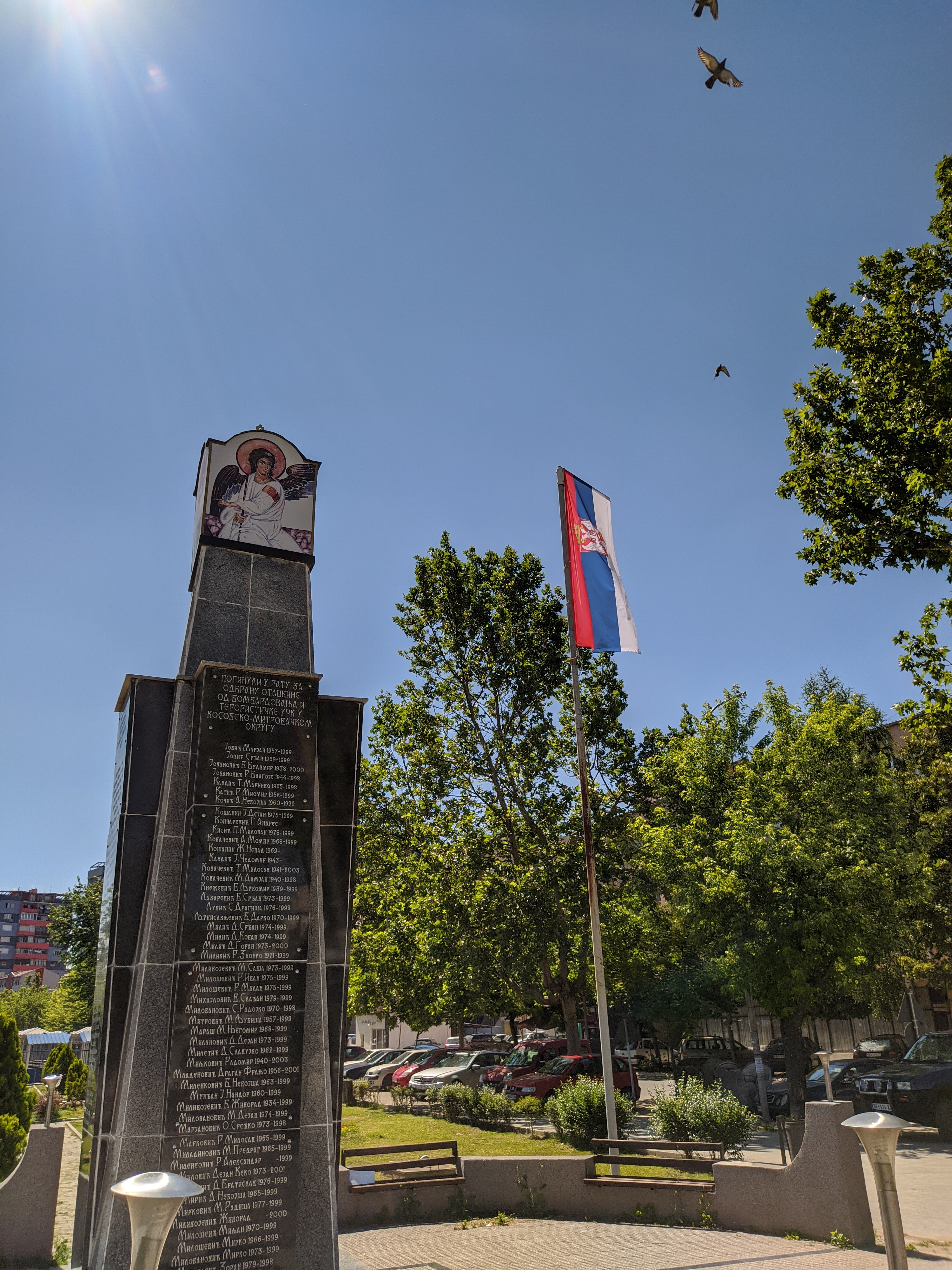 Monument to the Serbian victims of the Kosovo War in Kosovska Mitrovica